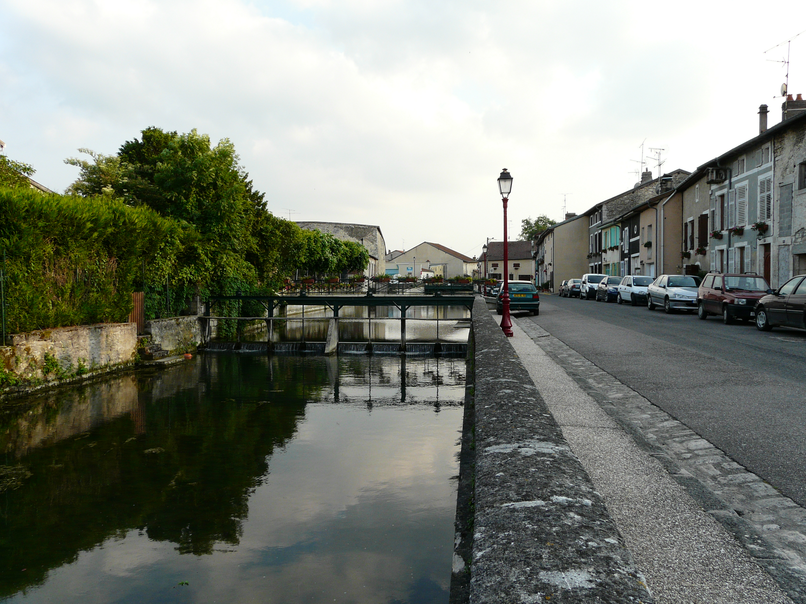 Houses on the banks of the Méholle river, a subsidiary of the Meuse river, in the village of Void (department of Meuse)